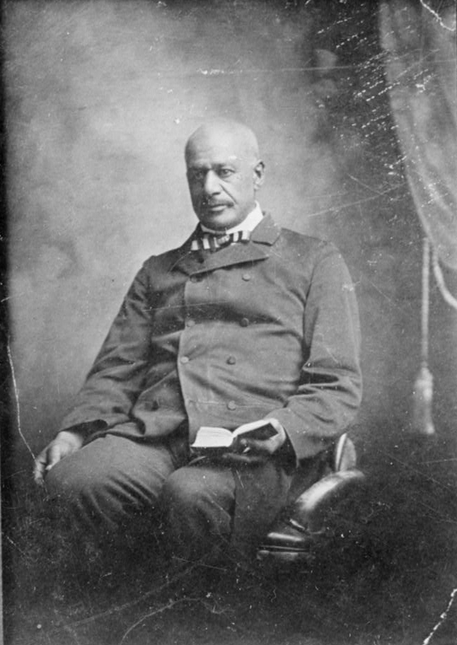 James Daniel Gardner, Medal of Honor recipient. This photograph was part of the material prepared by W.E.B. Du Bois for the Negro Exhibit of the American Section at the Paris Exposition Universelle in 1900 to show the economic and social progress of African Americans since emancipation.